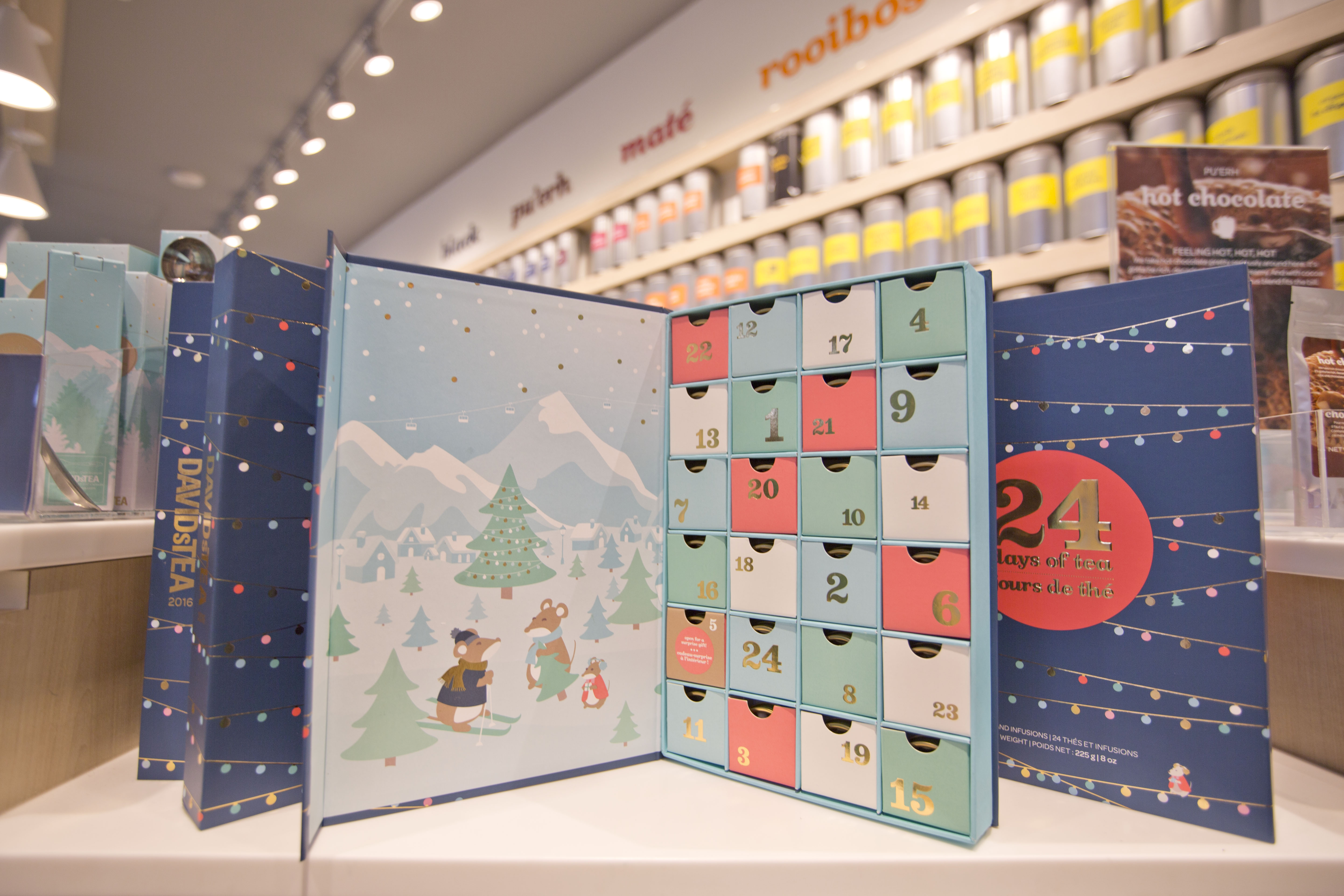 DAVIDsTEA | Tsawwassen Mills Outlet Shopping Mall